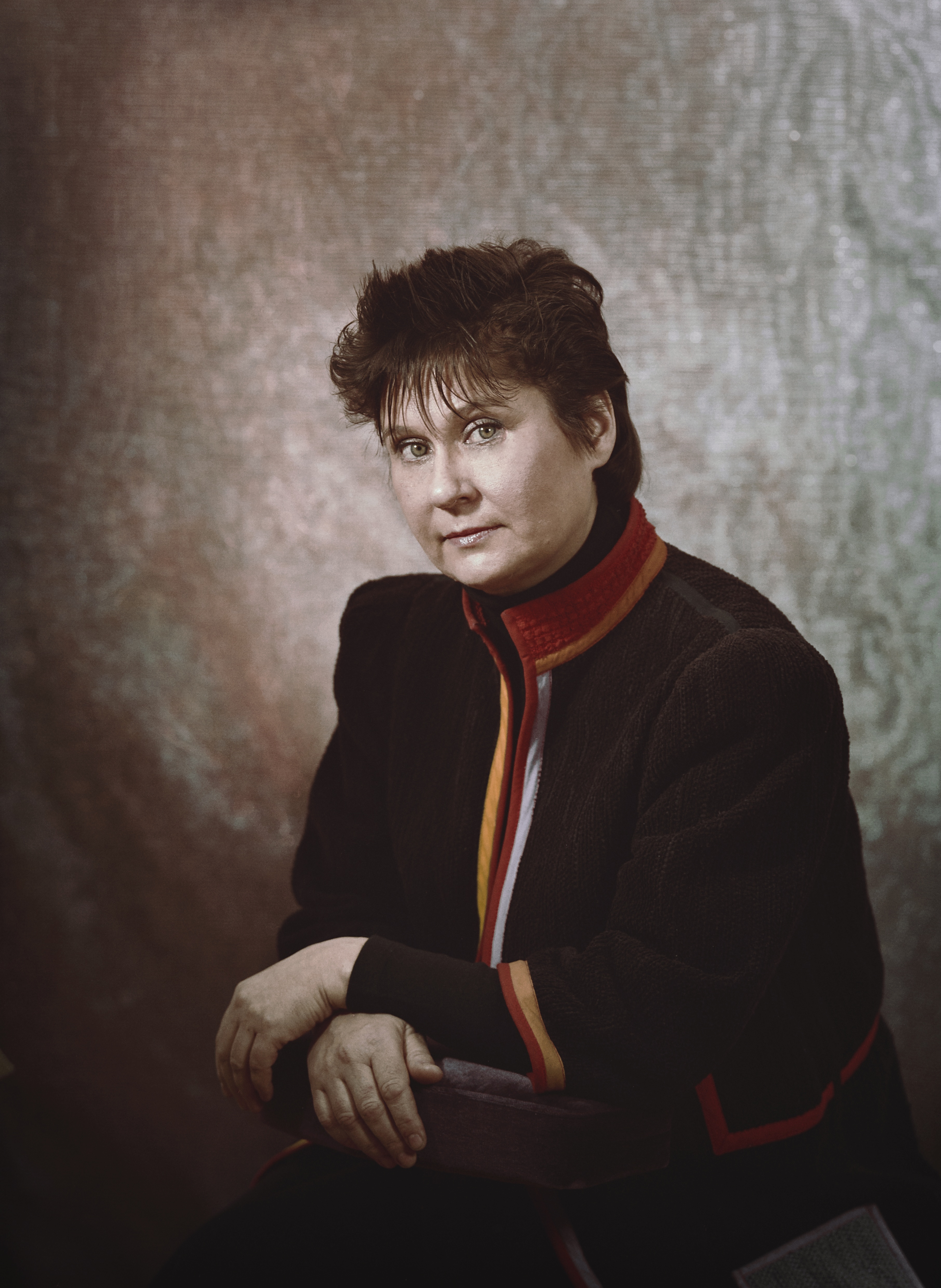 Photograph of the Finnish dancer and choreographer Riitta Vainio (1936–2015).